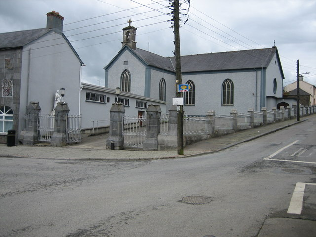 Newmarket The Roman Catholic Church at the junction of High Street and Island Road.